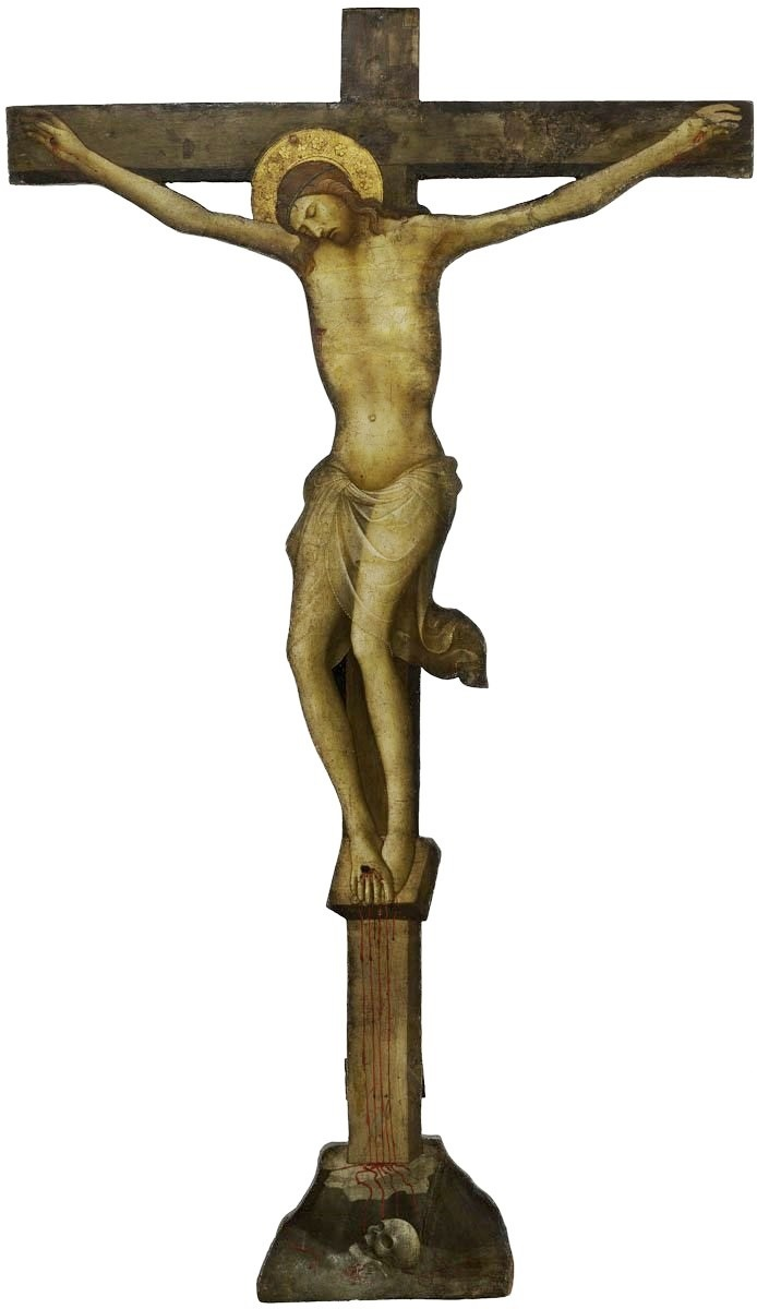 Lorenzo Monaco, Christ on the Cross ca 1420 (146 x 84 x 3 cm), Szépmûvészeti Múzeum, Budapest